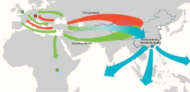 A rota Silk Road (linhas roxas) é uma das rotas de comércio entre a Ásia e Europa. (Fonte: Wagner et. al (2014))